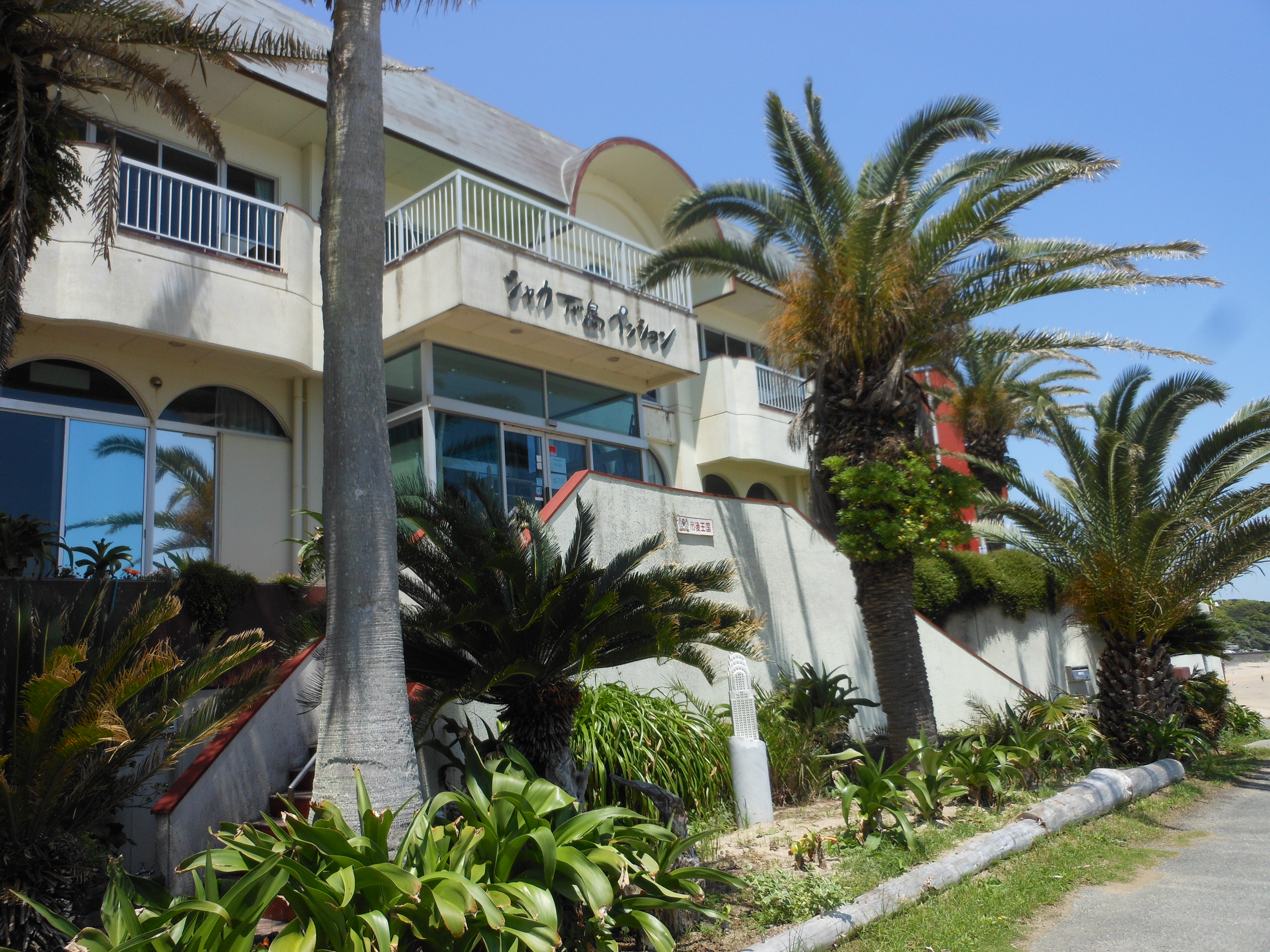 This is Shaka Shijima Pension in Shima city, Mie prefecture, Japan.